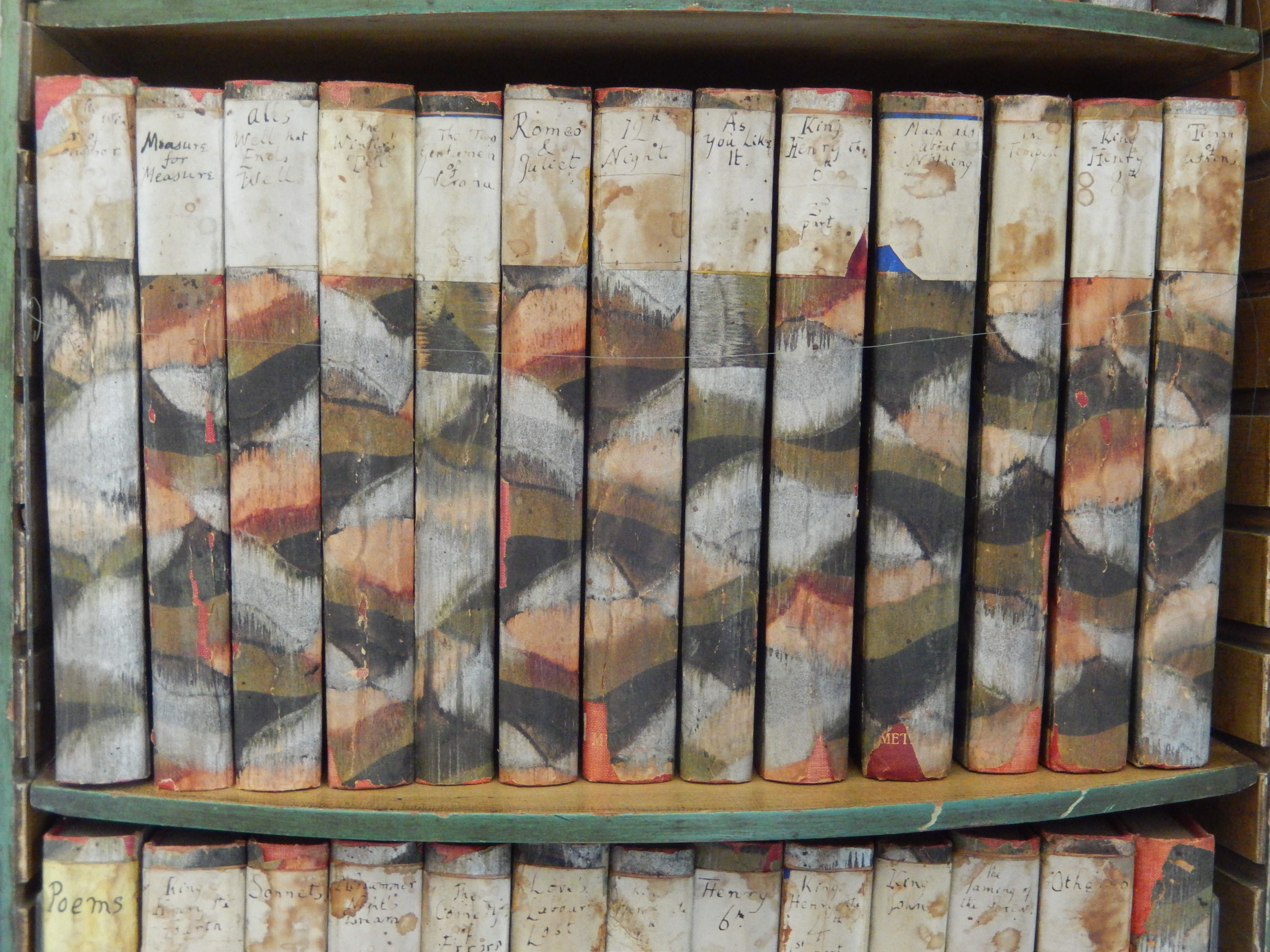 Shelf of Shakespeare Plays hand bound by Virginia Woolf in her bedroom at Monk's House, Rodmell, Sussex